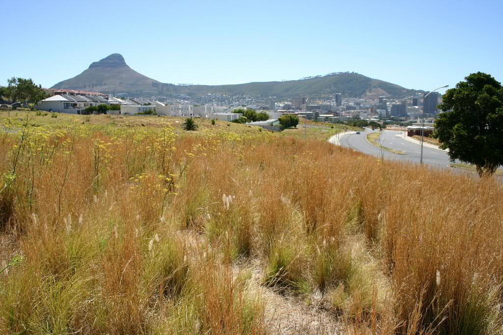 Lion's head and signal hill behind the grass of abandoned District Six, December 2006 Cape Town